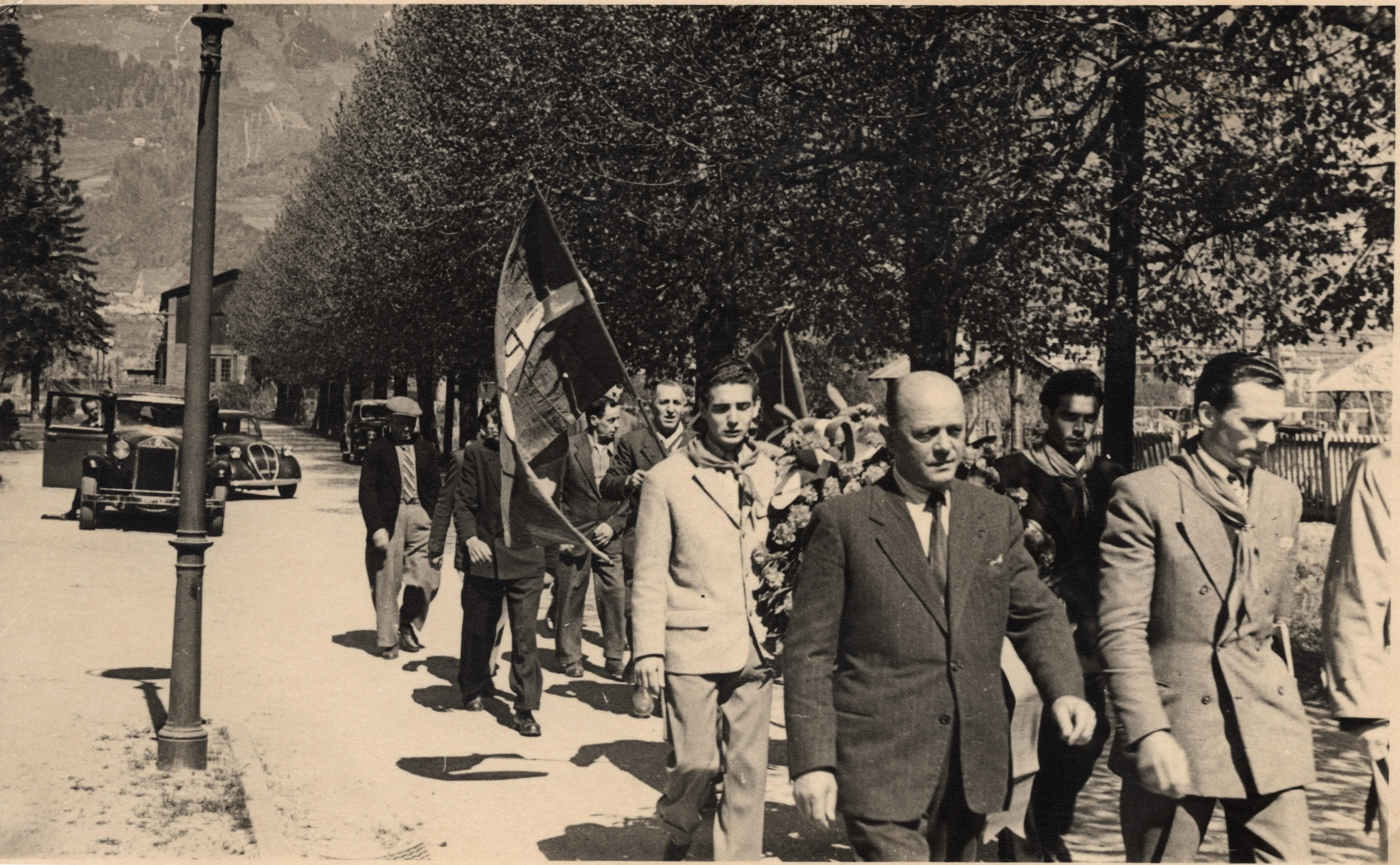 Eugenio Beltrami 30.4.1950 (second row, left) member of the FGCI delegation on the remembrence day of the victims of the German massacre in Merano of April 30th 1945